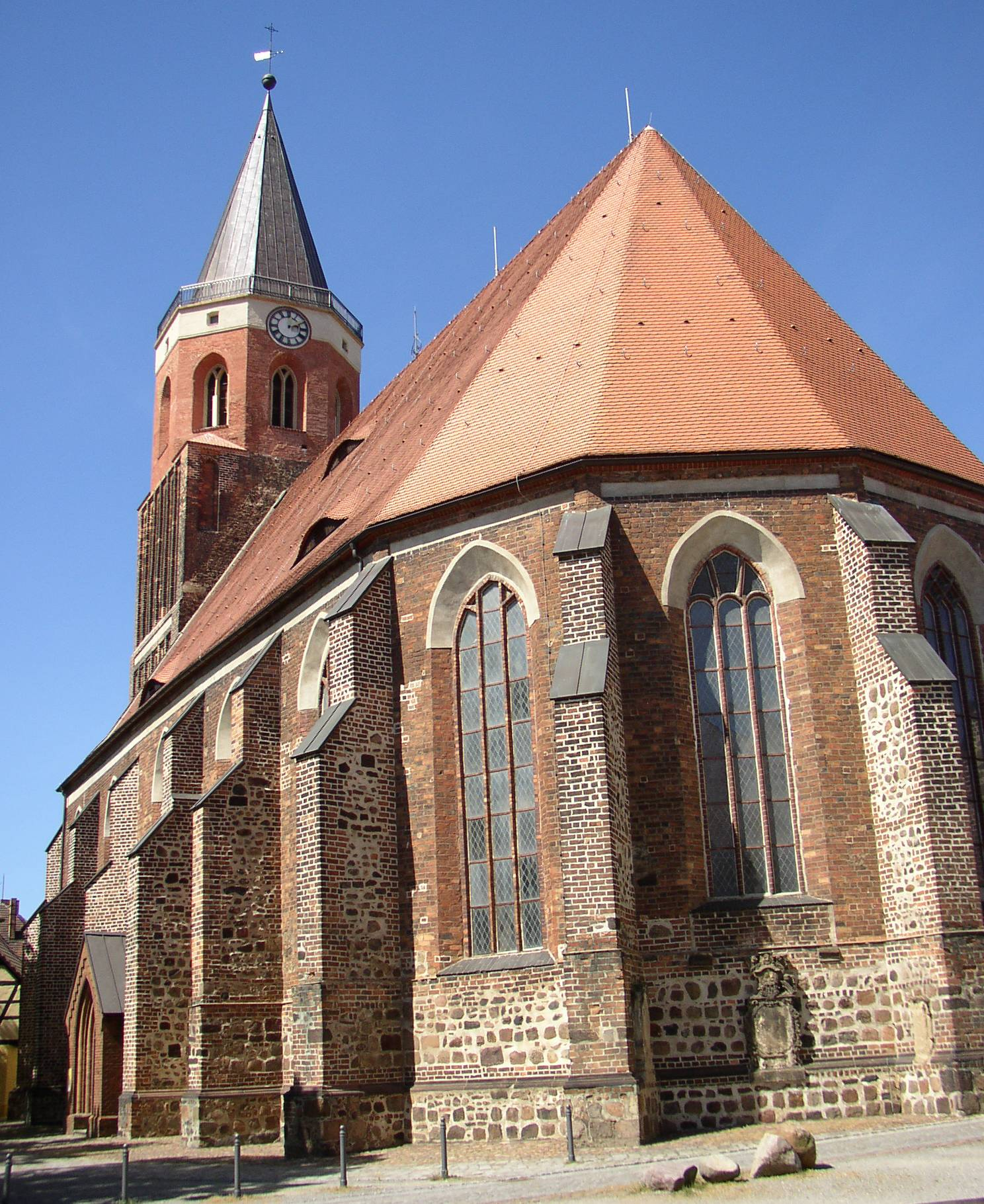 Church in Calau in Brandenburg, Germany